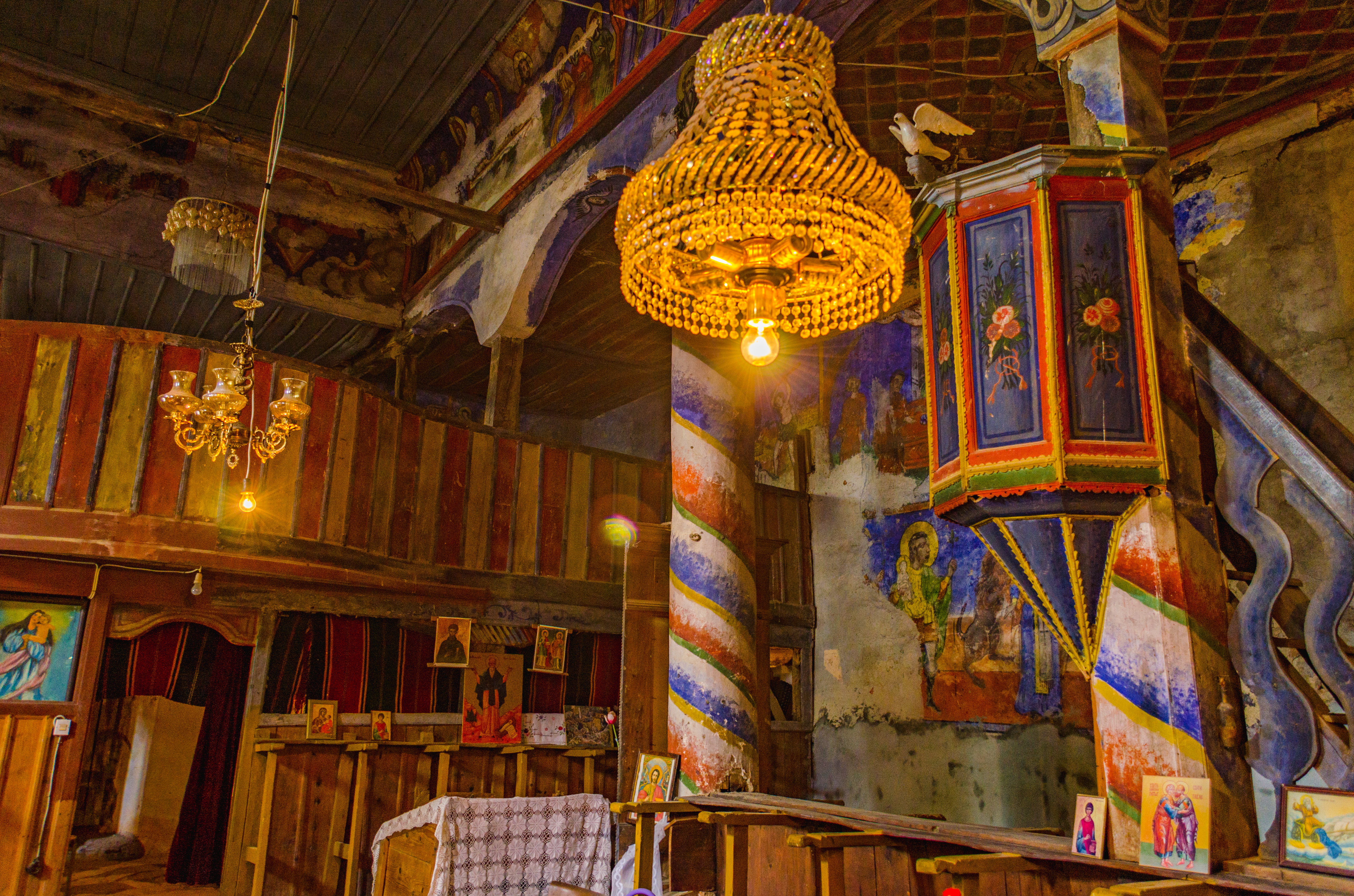 Interior of the St. Pantaleon's Church in the village Huma